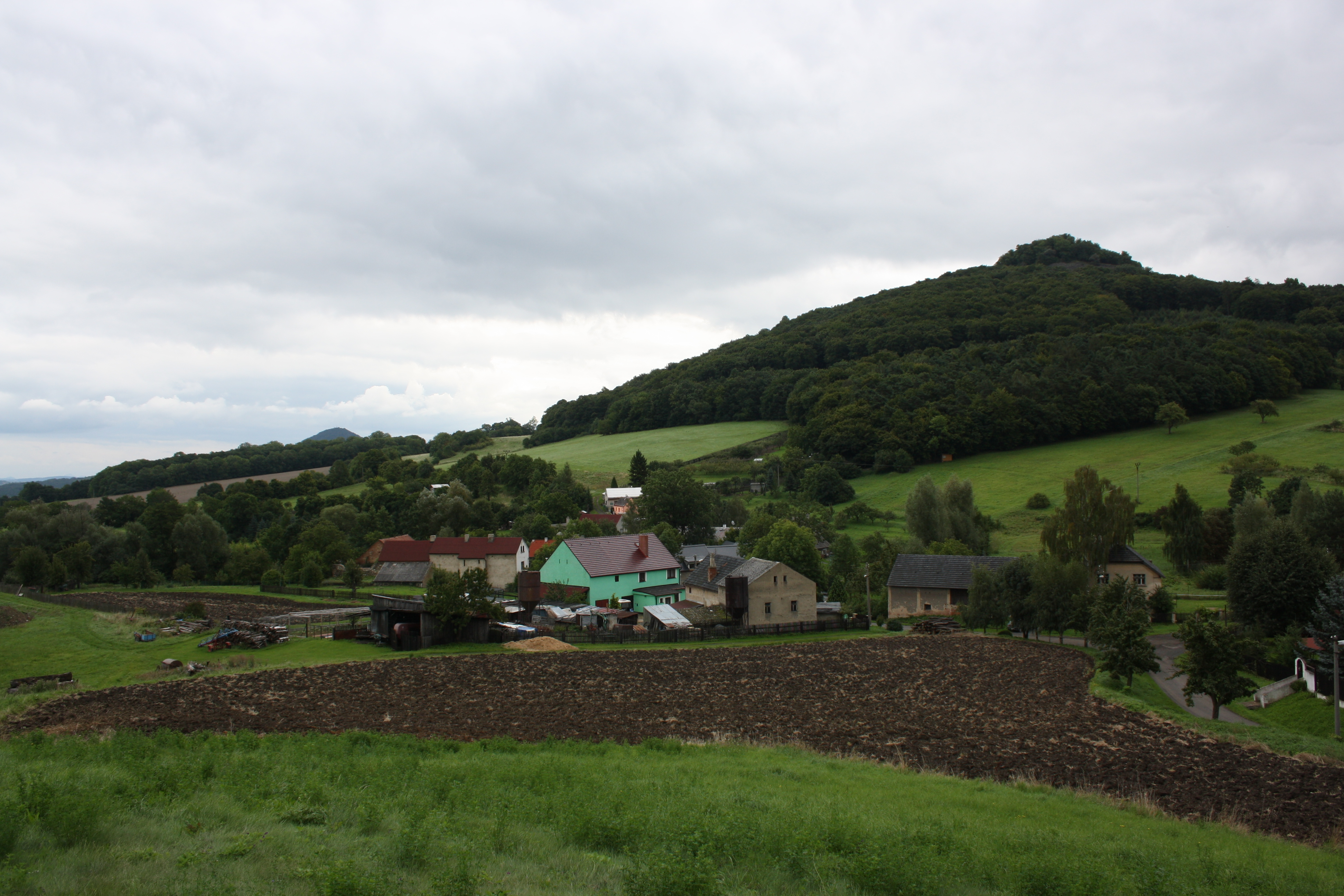 Mlýnce colony in Milešov village (Velemín municipality), Litoměřice District, Czech Republic.